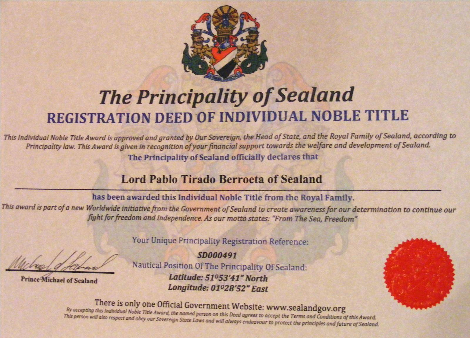 Noble Title signed by The Prince Regent of The Principality of Sealand